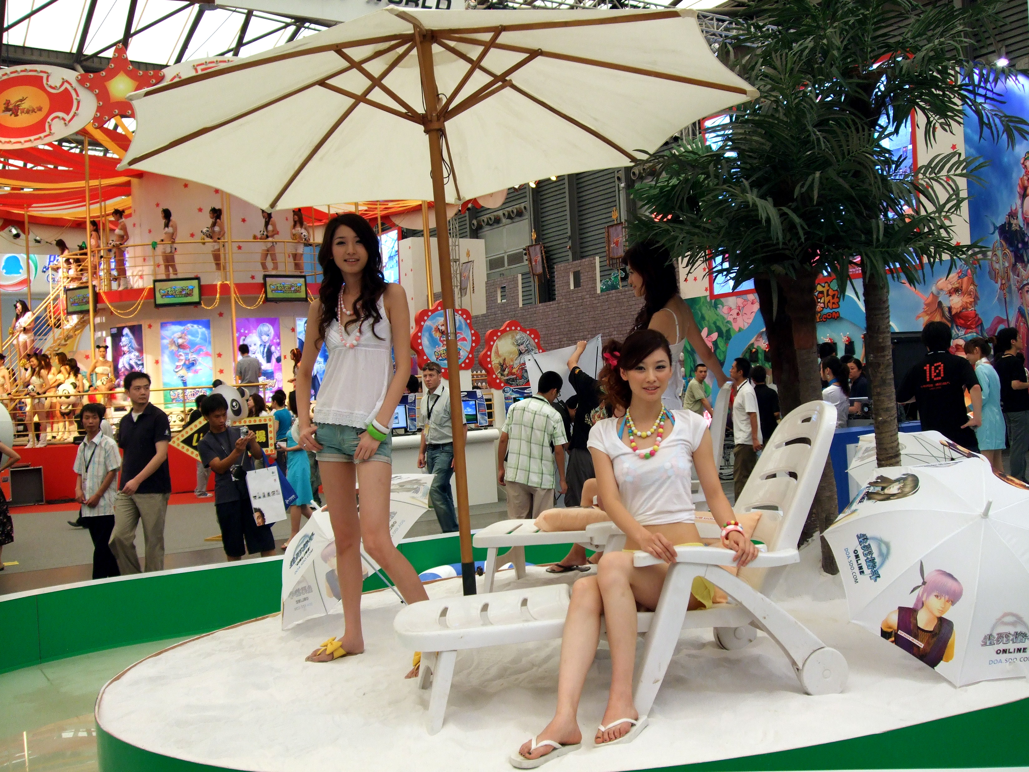 Showgirls for game "Dead Or Alive Online" on China Digital Entertainment Expo & Conference (ChinaJoy) 2007, Shanghai, China.